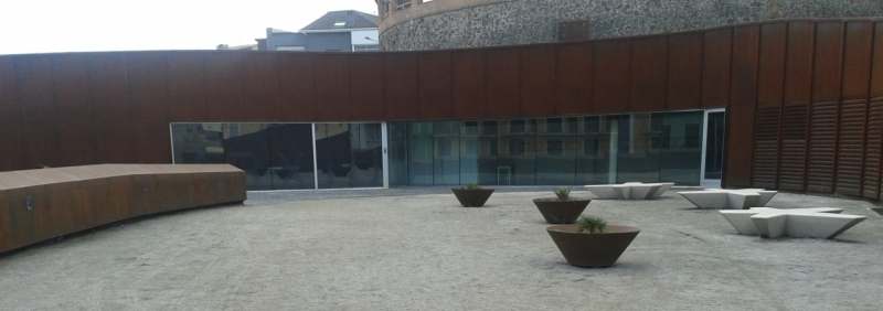 PEHOC Headquarters at "Arxiu Comarcal de la Garrotxa"'s building.